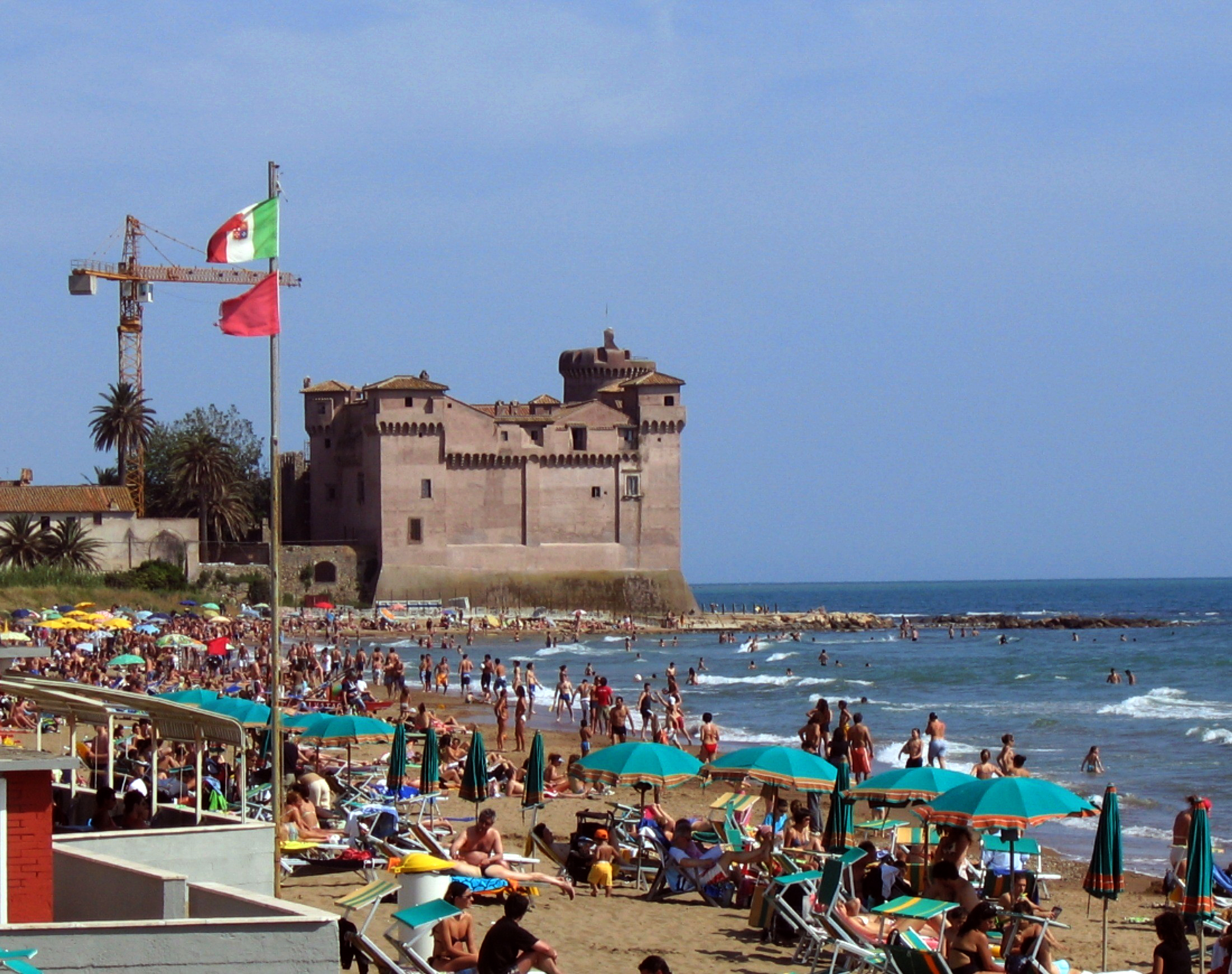 Medieval castle in Santa Severa and a beach of Tirrenium Sea